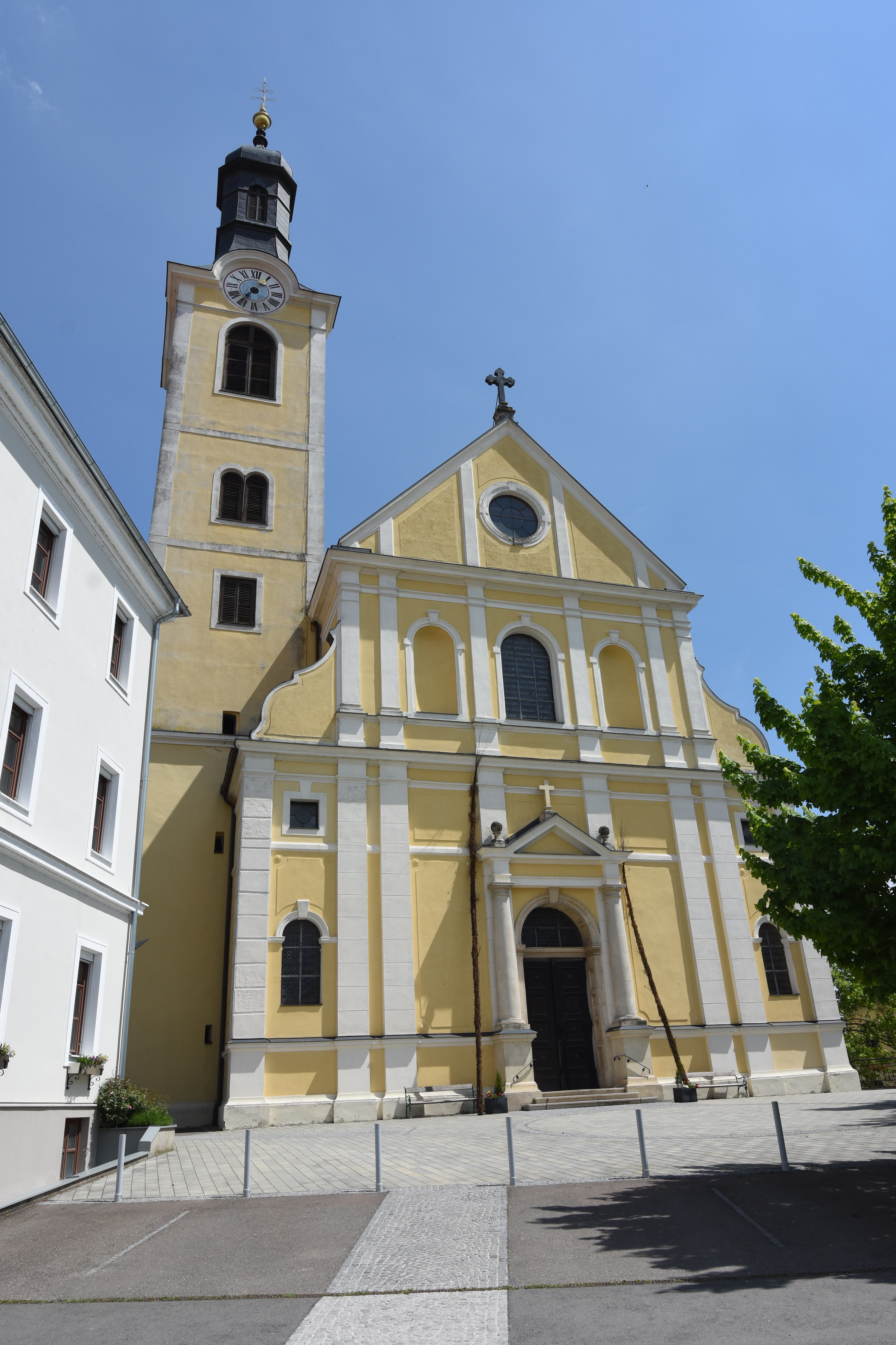 Saint Nicholas Church (Leutschach)